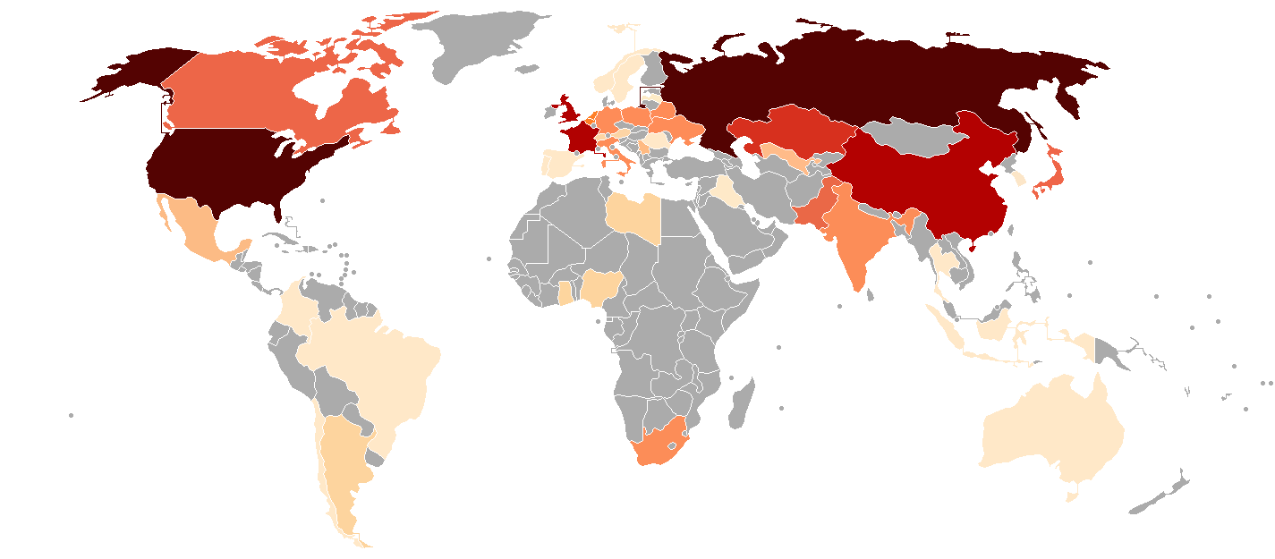 Countries with weapons-usable highly enriched uranium